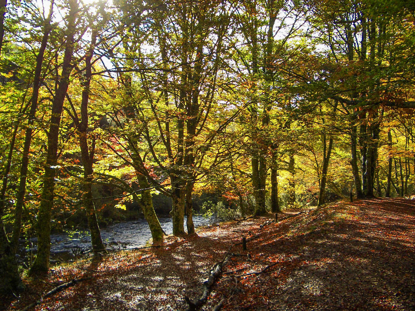 Beech forest in Montejo de la Sierra, province of Madrid, Spain.